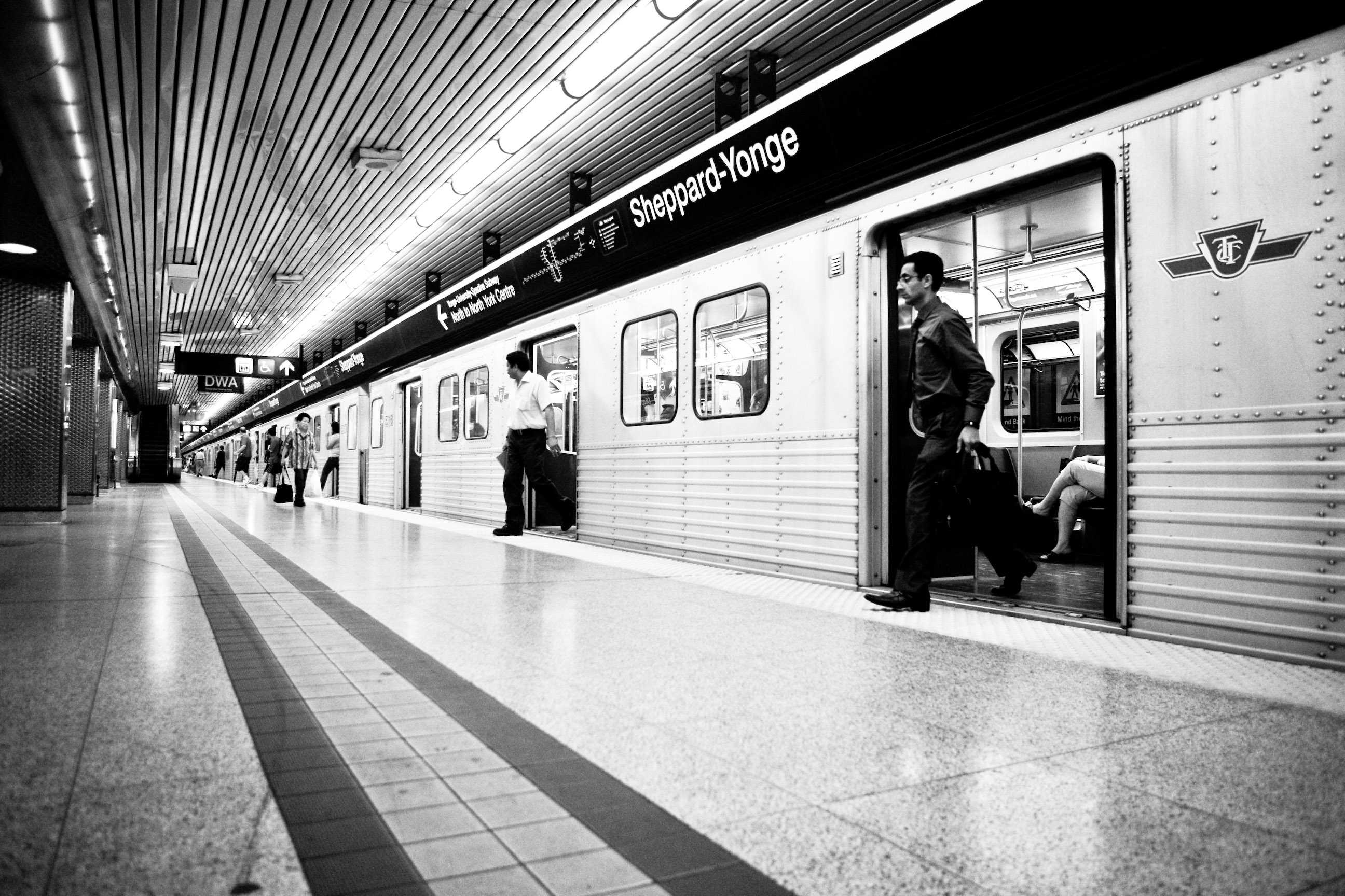 Subway stations always make for interesting photos, at least I think they do. I'm not sure why